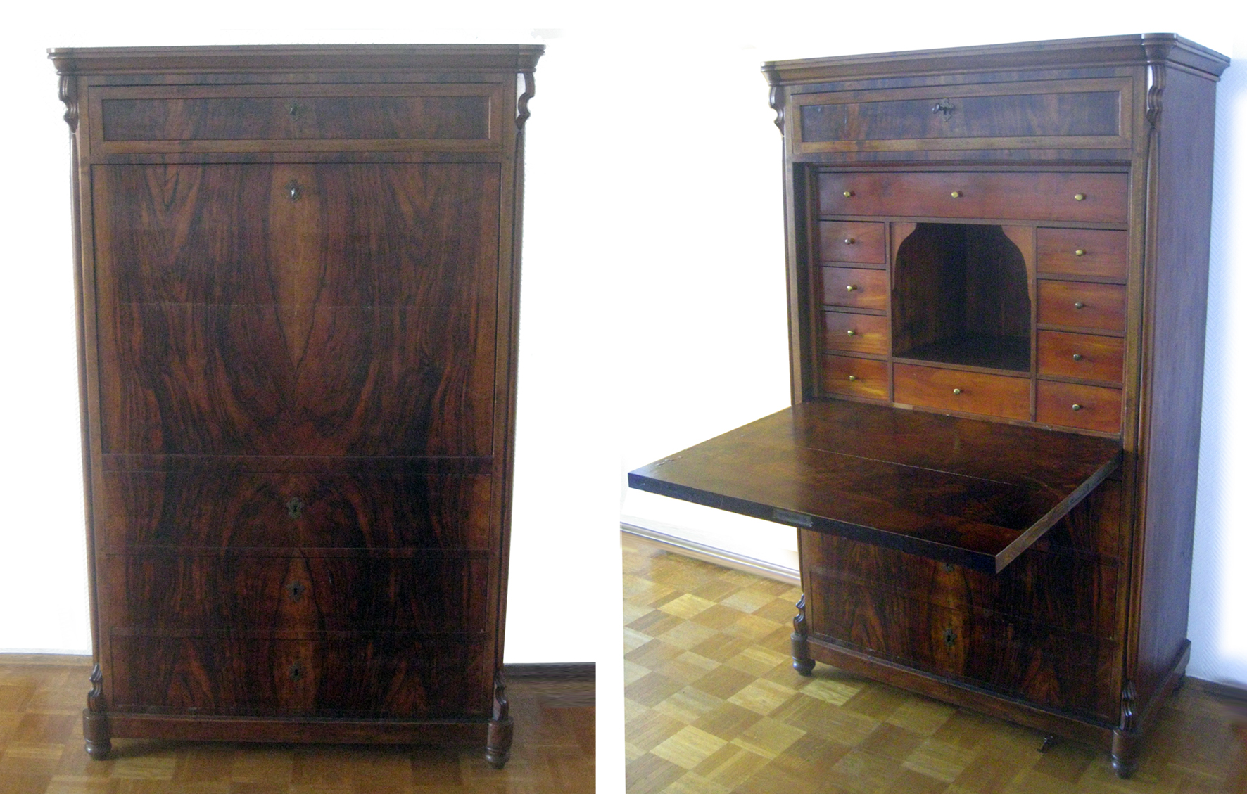 louis seize secretaire a abattant